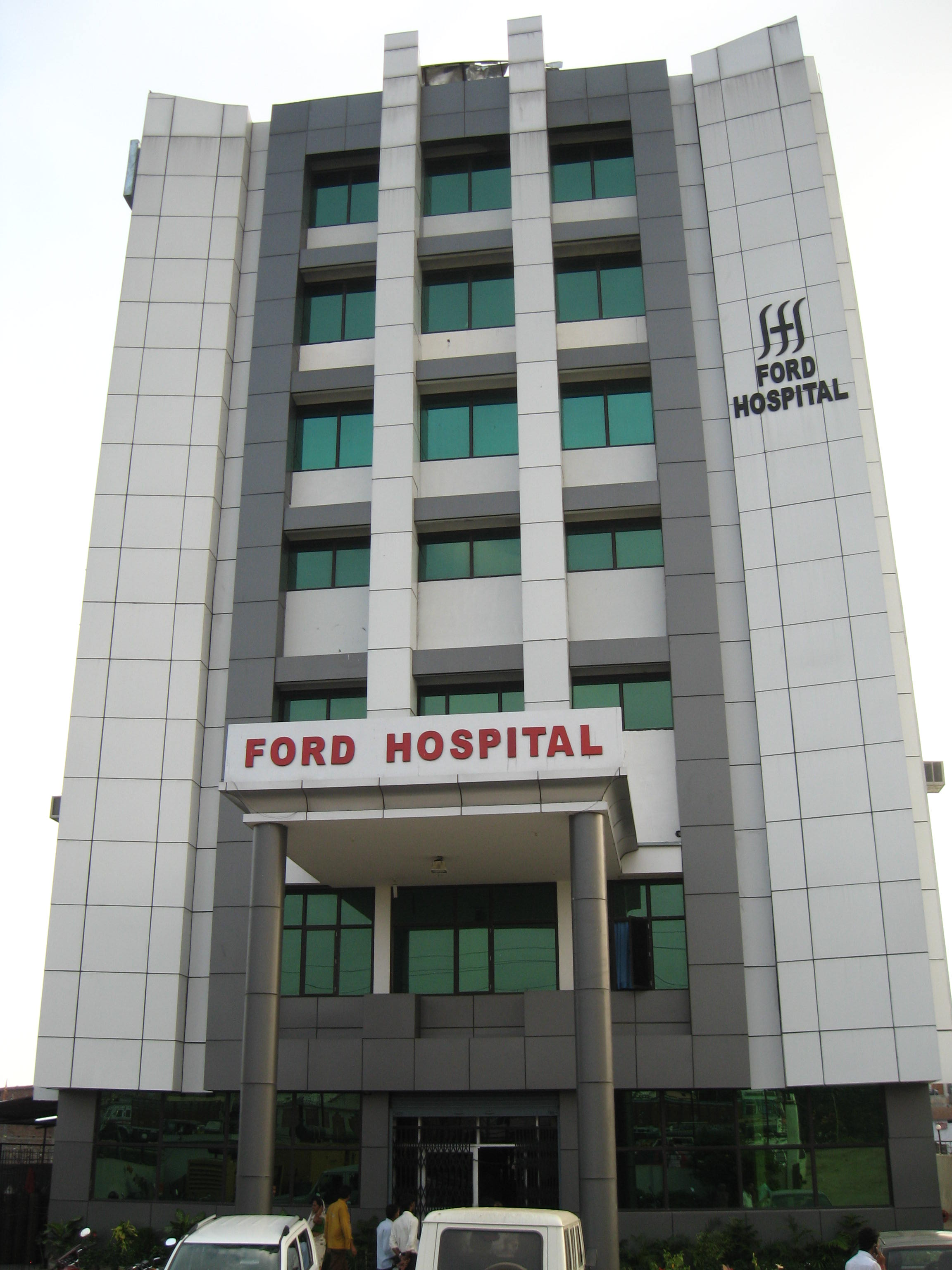 Ford Hospital is [Patna], [Bihar], India based multi-specialty hospital.